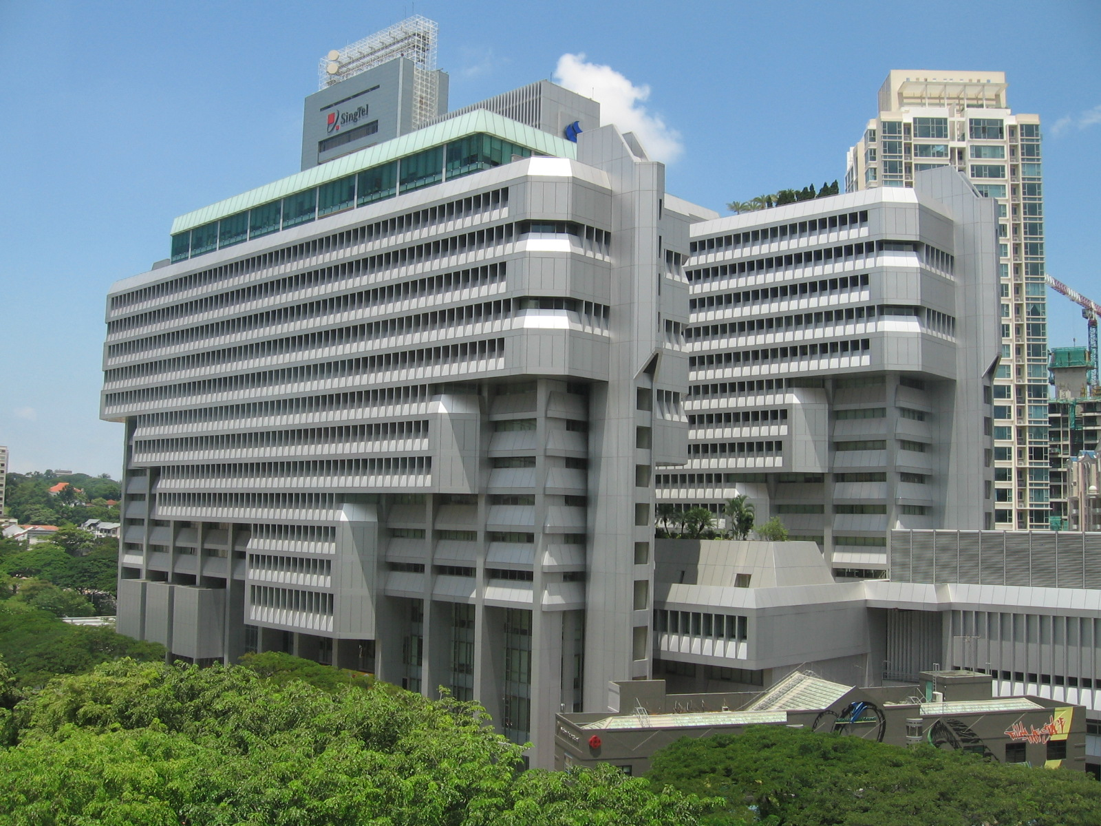 Singapore Power Building